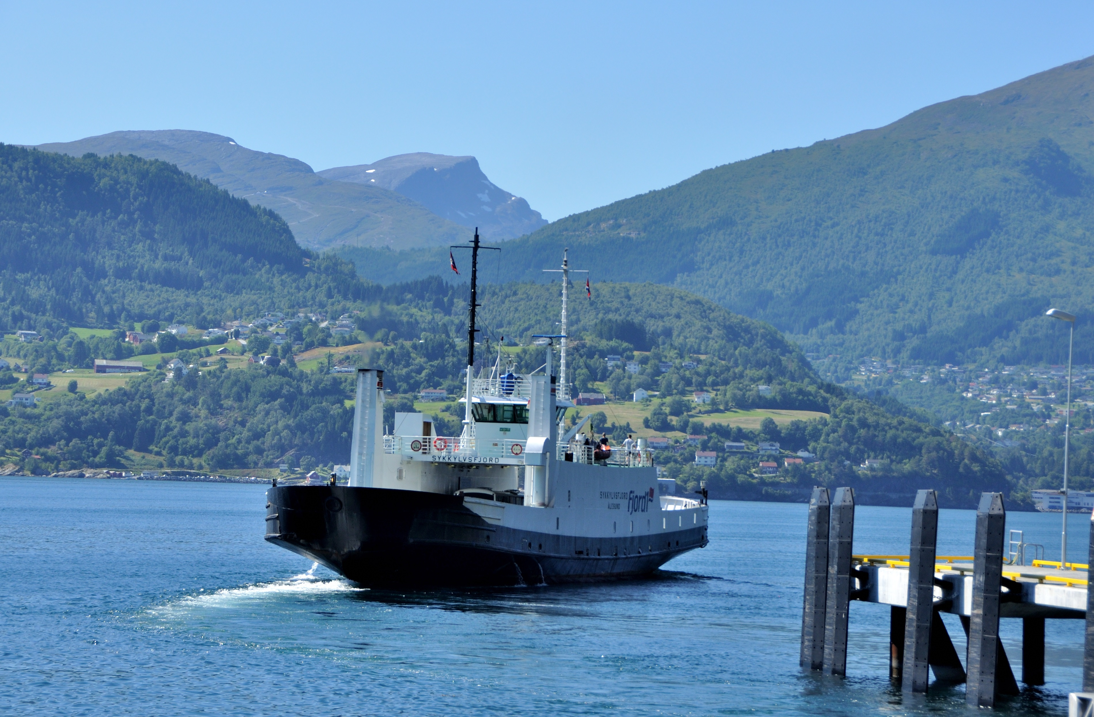 "Sykkylvsfjord" car Ferry, Liabygda Ferry dock